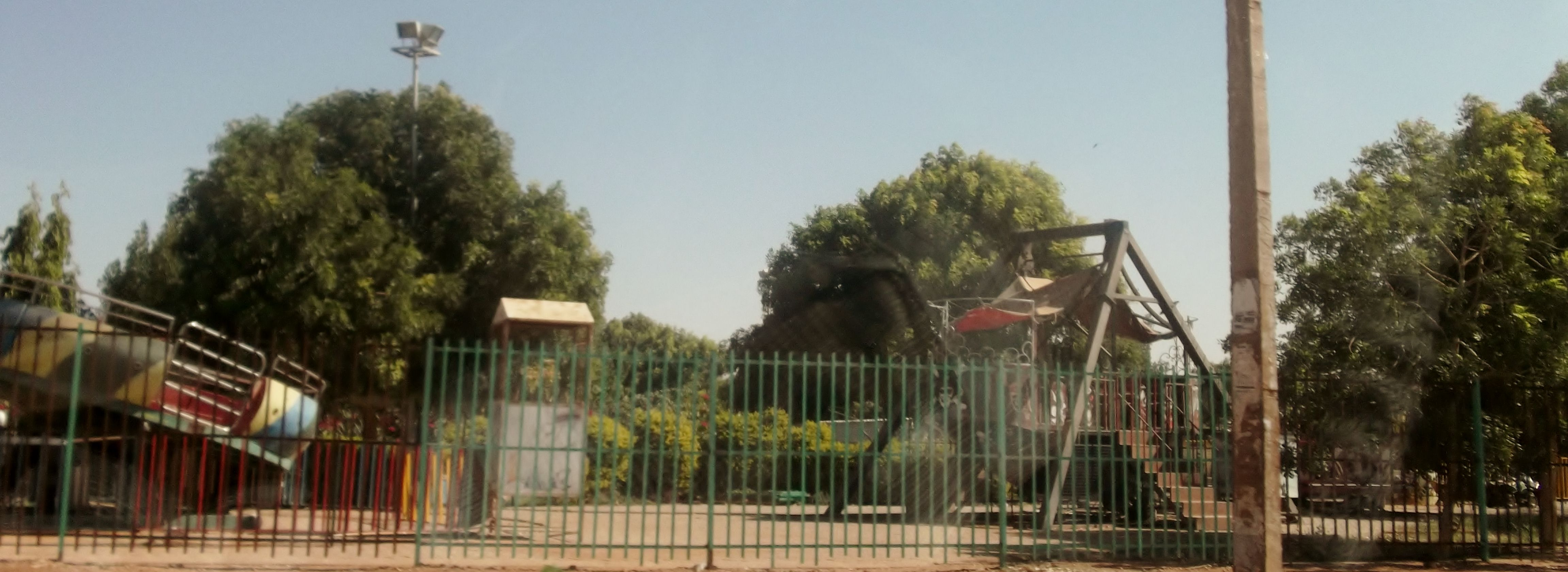 Al bohira Park Almolazmeen – Omdurman - Sudan